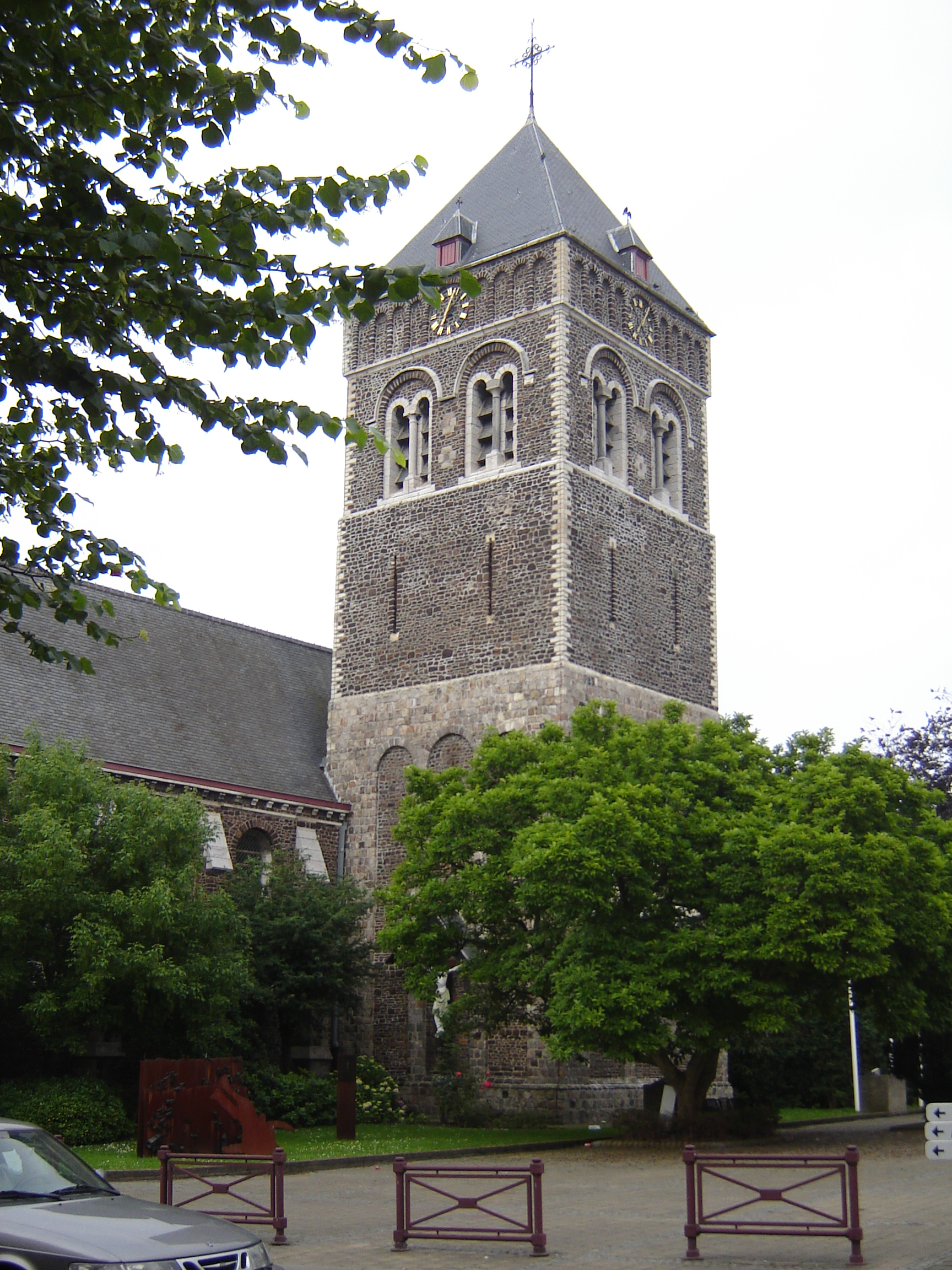 Church of Saint Dionysus in Geluwe, Wervik, West-Flanders, Belgium